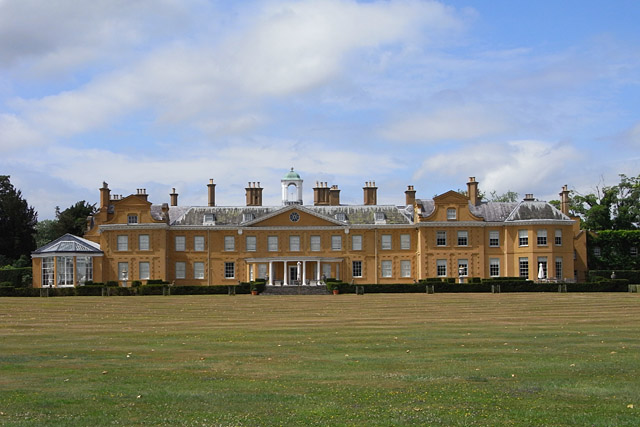 Stratfield Saye House The eastern aspect of the house, the nation's gift to the first Duke of Wellington following victory at Waterloo, as seen across lawns that rise gradually from the River Loddon. Most of the house dates from about 1640. The first Duke had the intention of replacing it with a much grander residence elsewhere on the estate. However, funds did not allow for this and instead he had the conservatory and a couple of wings added. These give the house an asymmetrical appearance.